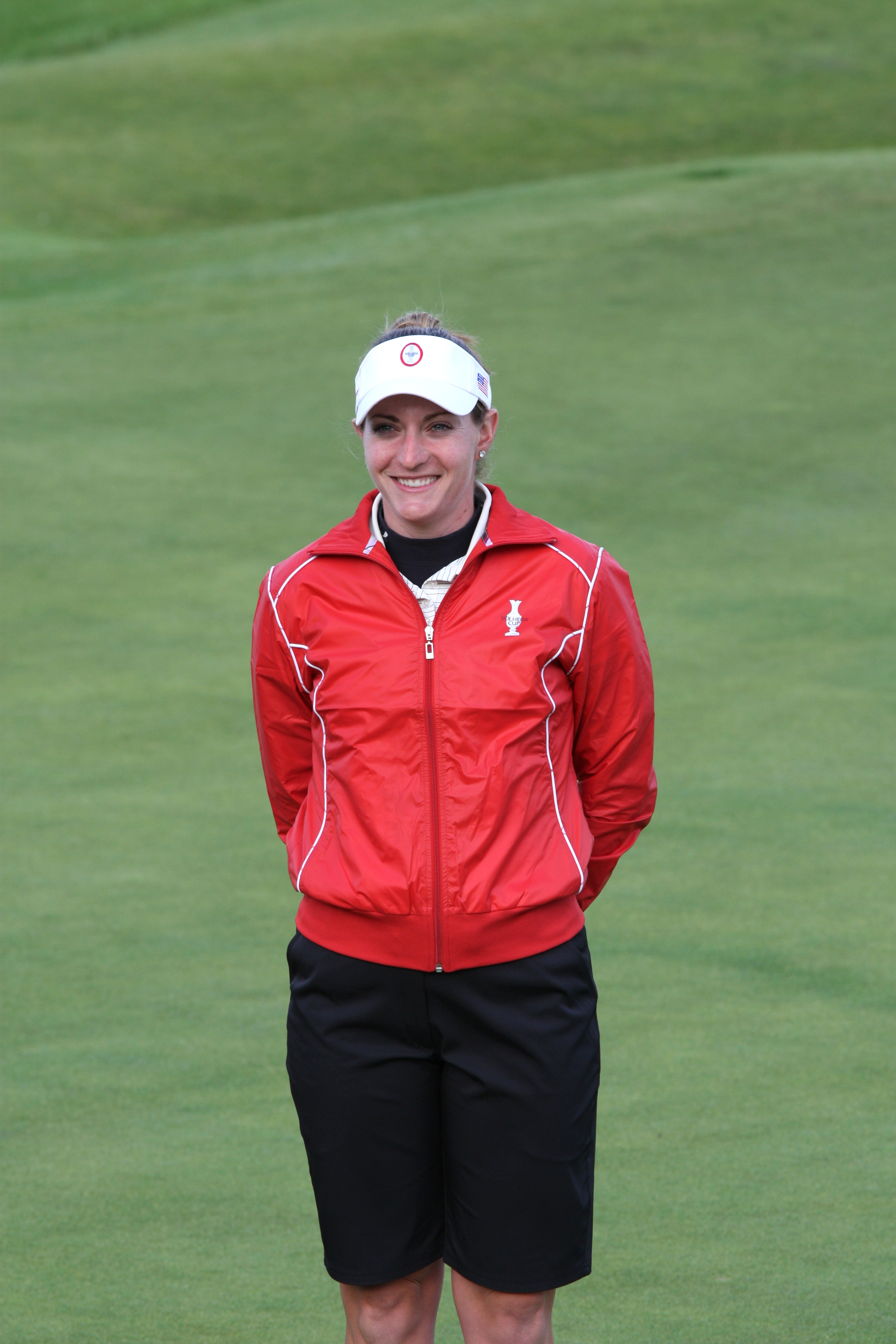 LYTHAM ST ANNES, UNITED KINGDOM - AUGUST 02: Brittany Lang of USA, member of the USA Solheim Cup Team, posing for a photograph after announcement of Solheim Cup teams, which followed final round of the 2009 Ricoh Women's British Open held at Royal Lytham & St Annes on August 2, 2009 in Lytham St Annes, England. (Photo by Wojciech Migda)